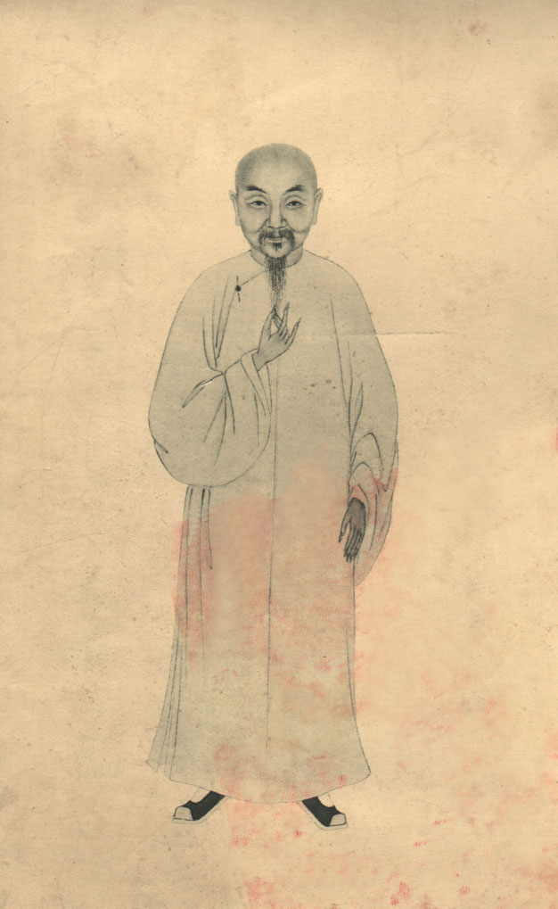 Wei Jirui, scholar of the Qing Dynasty.